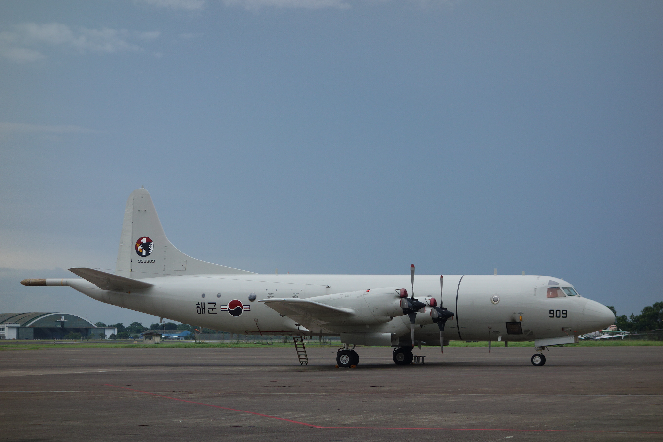 P-3 Orion of South Korean Navy taking part in operation on searching for lost QZ-8501 aircraft. Halim Perdanakusuma airport, Jakarta.